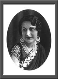 Patience Cooper, (1905-1983), a silent era actress in Indian Cinema, (before 1946).